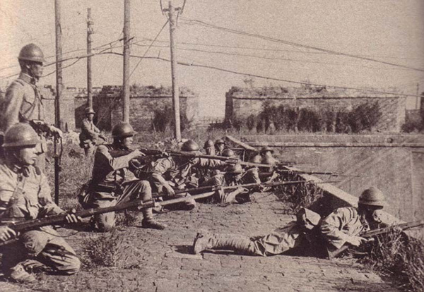 Japanese soldiers of 29th Regiment taking an offensive posture on the Mukden Little West Gate